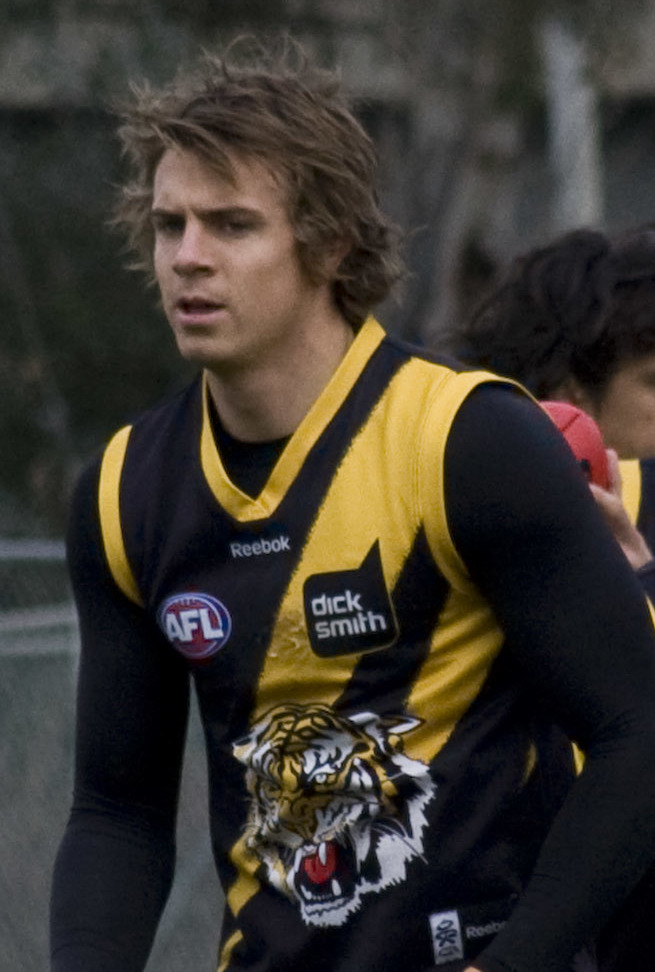 Brett Deledio, Shane Edwards and Chris Newman at Richmond training in August 2009